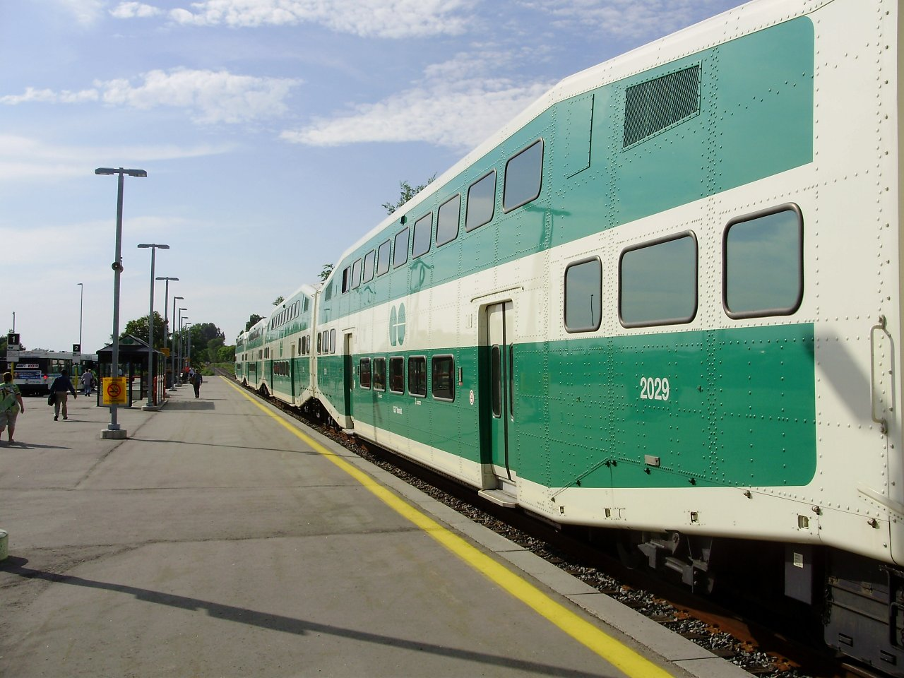 Standing next to GO Transit's Bombardier BiLevel car #2029, looking north along the platform at Barrie South GO Station in Barrie, Ontario, Canada.